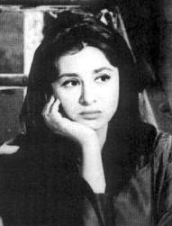 Faten Hamama in Al-Haram. Promotional photo from here [1]